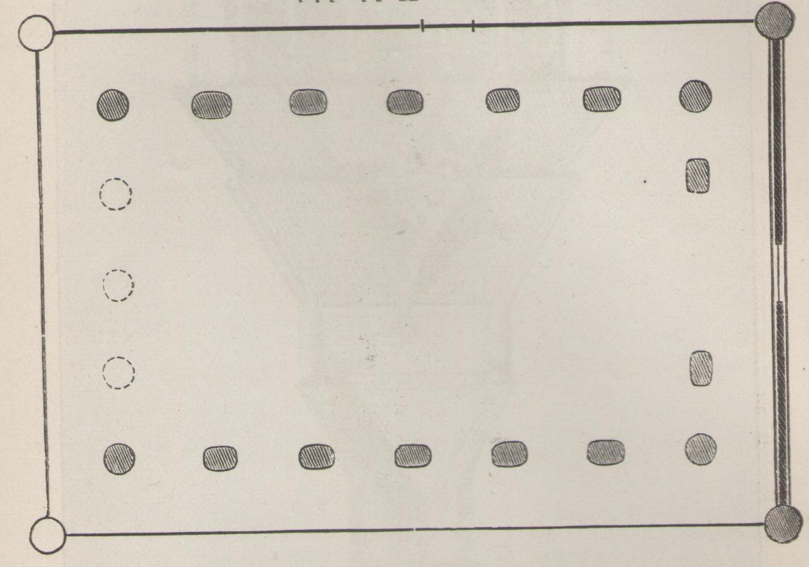 Print of floorplan of Hafslo stave church